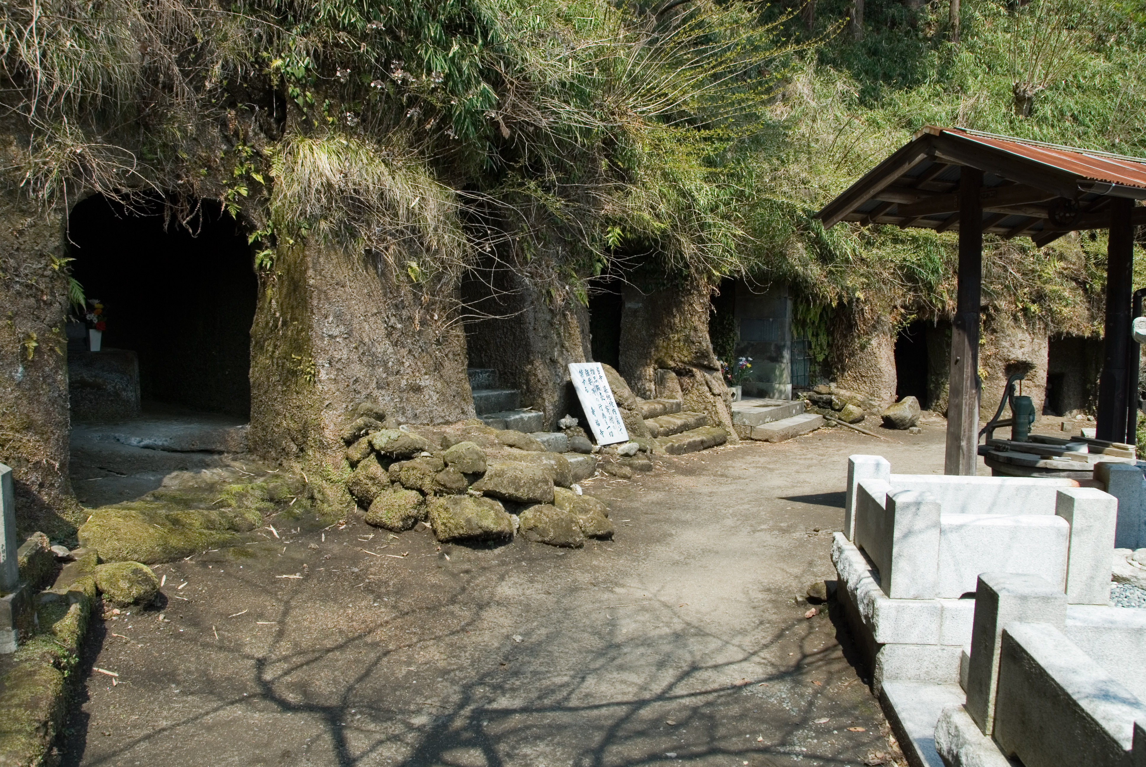 Some Yagura (cave tombs) in the cemetery at Jufuku-ji